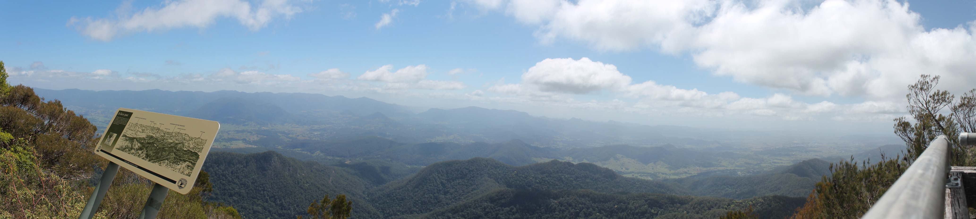 Mt warning panorama